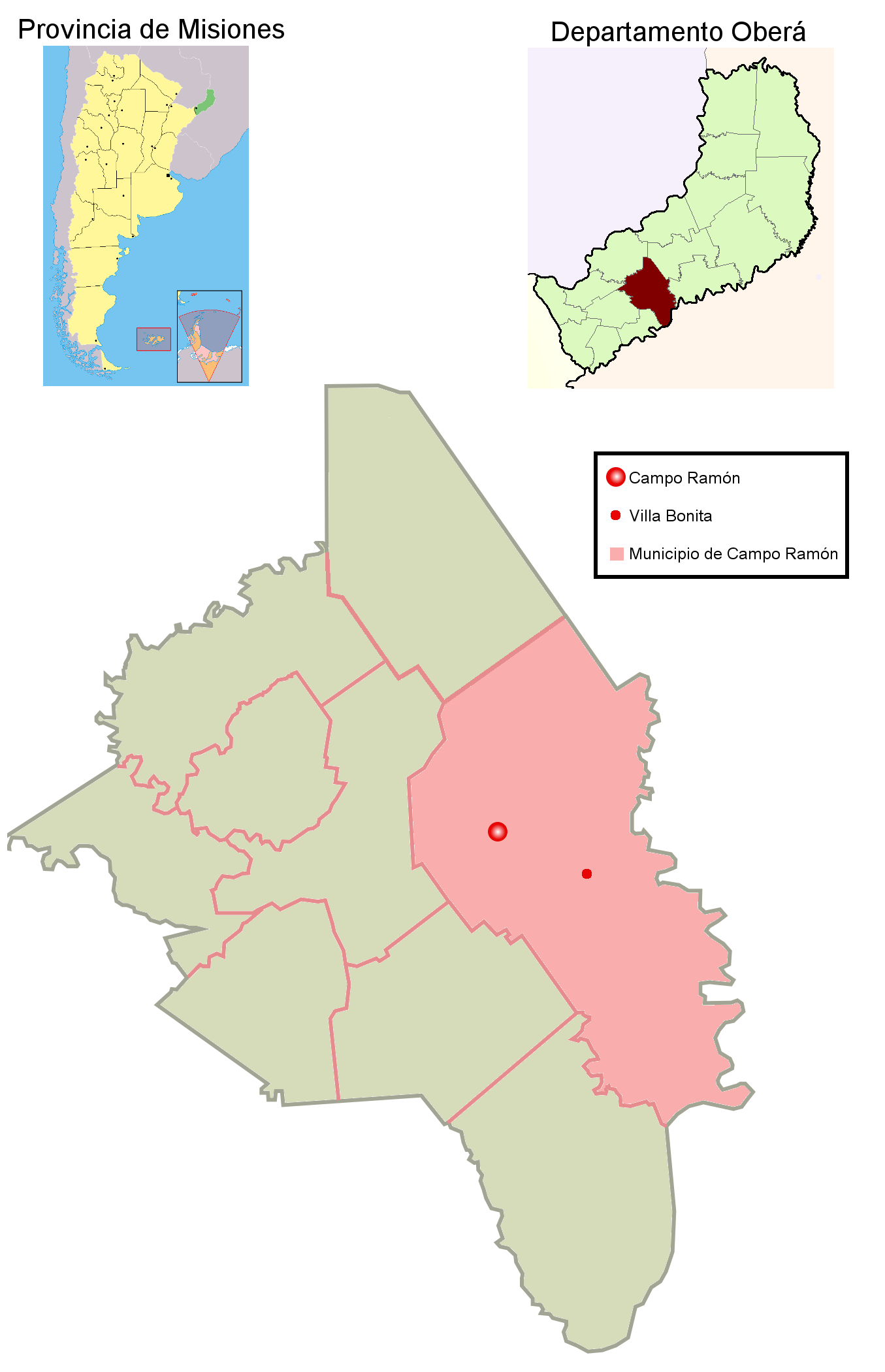 A map showing municipio of Campo Ramón in Oberá departament, Misiones province, Argentina. Also shows Campo Ramón town location and Villa Bonita town location. Created with GIMP.